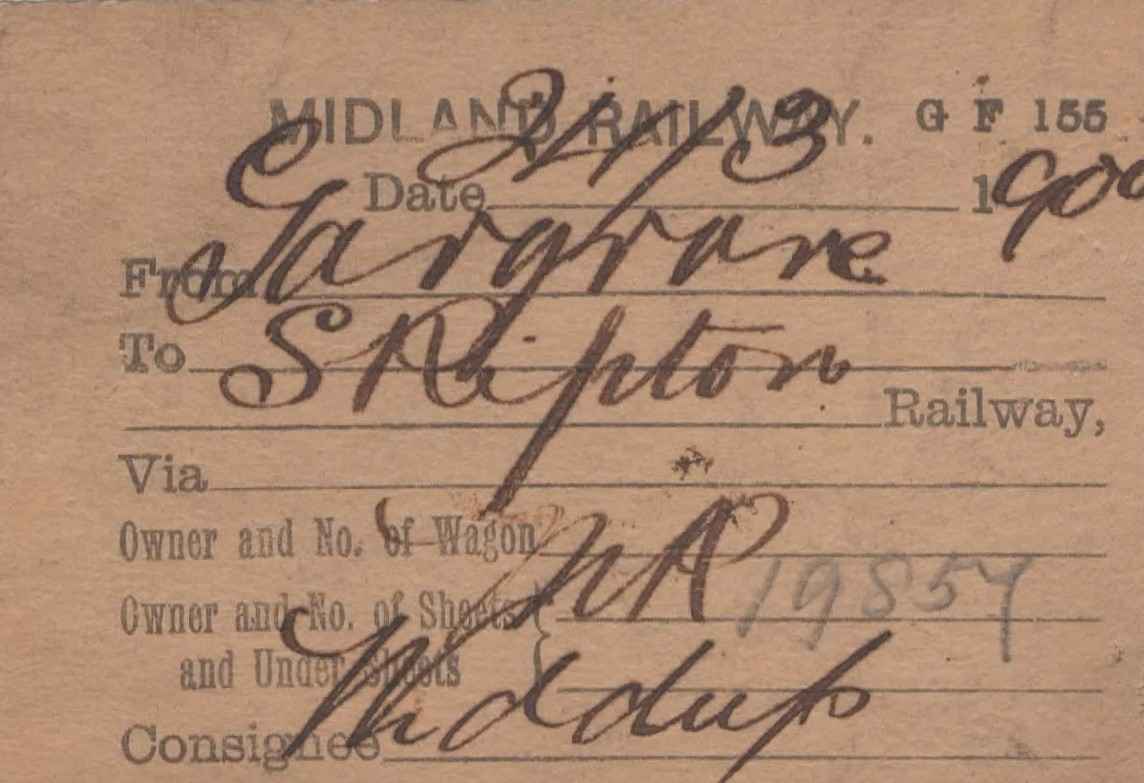 This is a wagon card for a consignment from Gargrave to Skipton on 24 March 1900